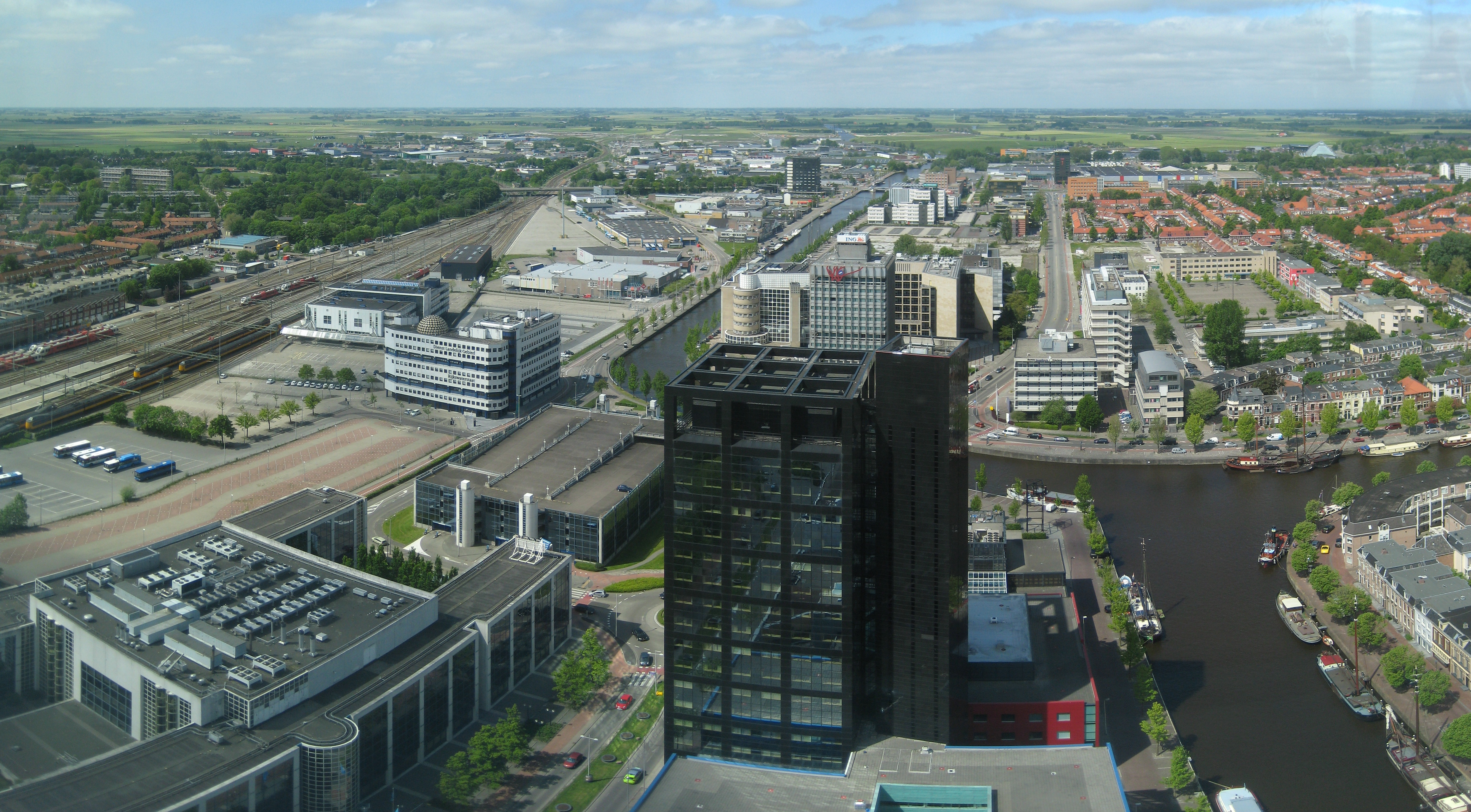 View to the west from the observation room on the 26th floor of the Achmea Tower in Leeuwarden, the capital of the Dutch province of Fryslân.